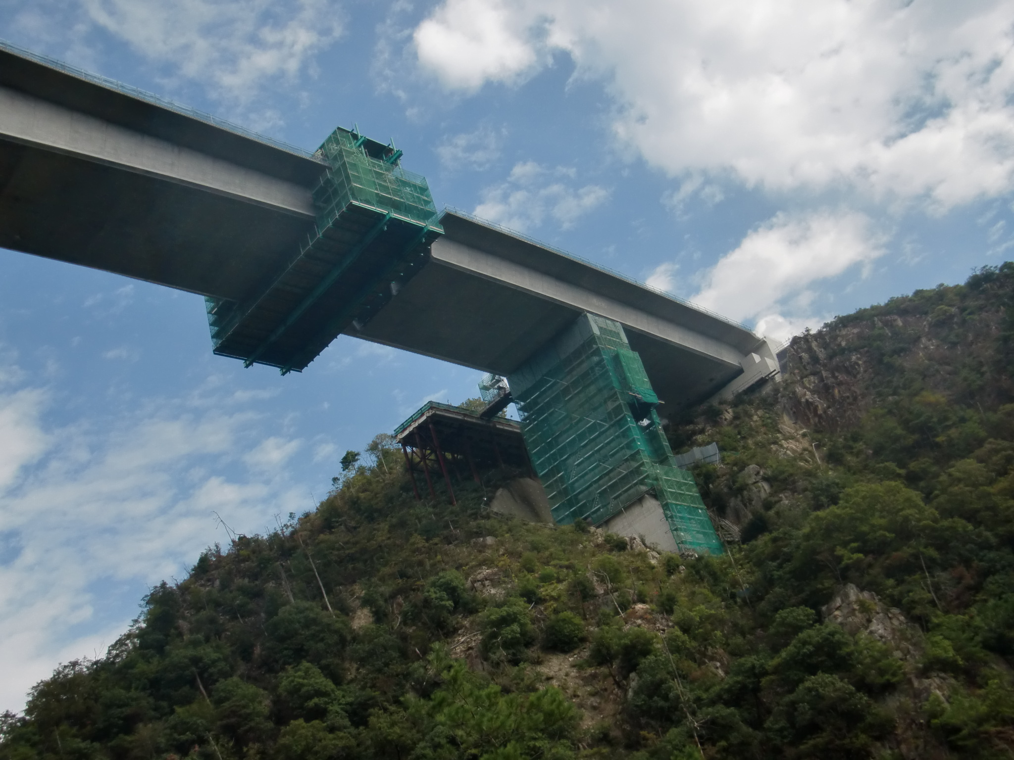 Under construction bridge of Shin-meishin ezpress way, Takaraduka city kawasimo river